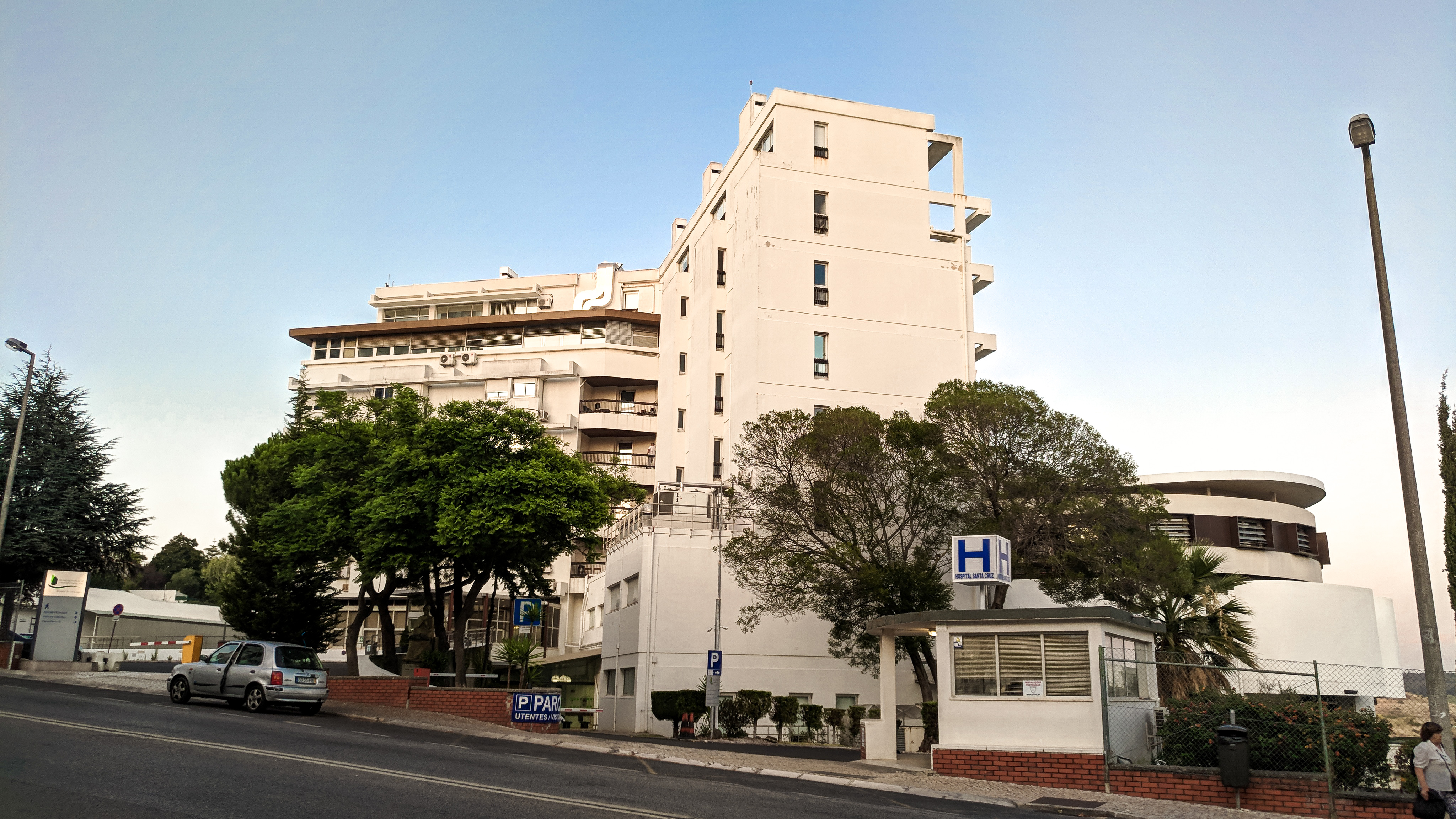 Front facade of the Santa Cruz Hospital in Carnaxide, Oeiras, Portugal